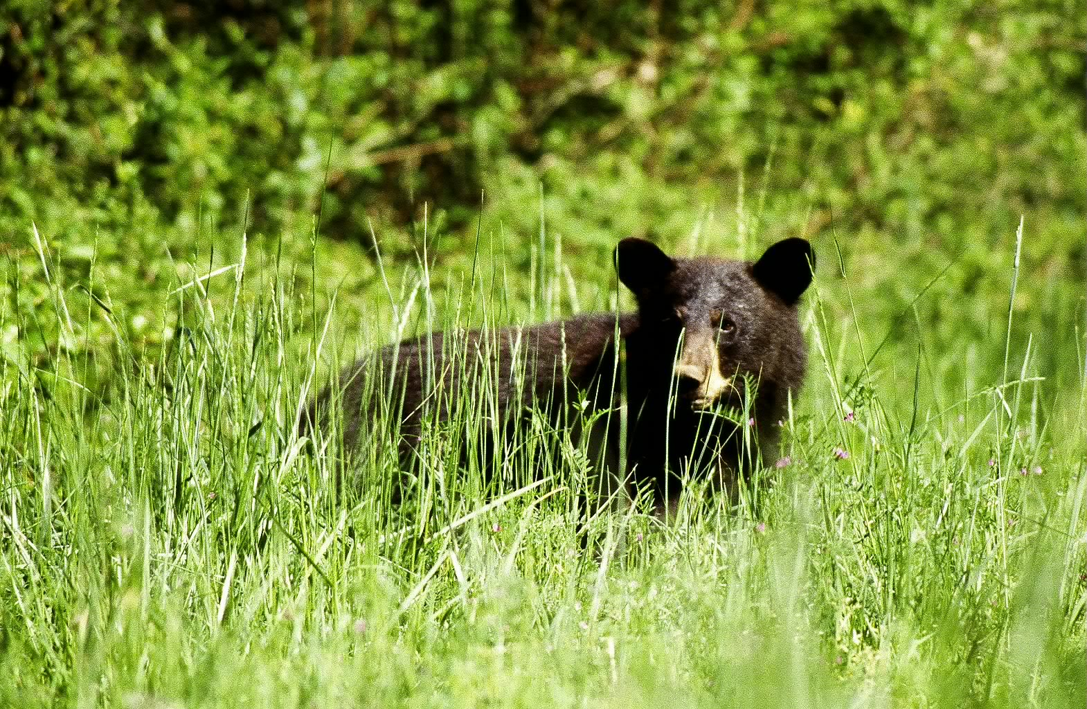 Great Dismal Swamp National Wildlife Refuge. Credit: USFWS